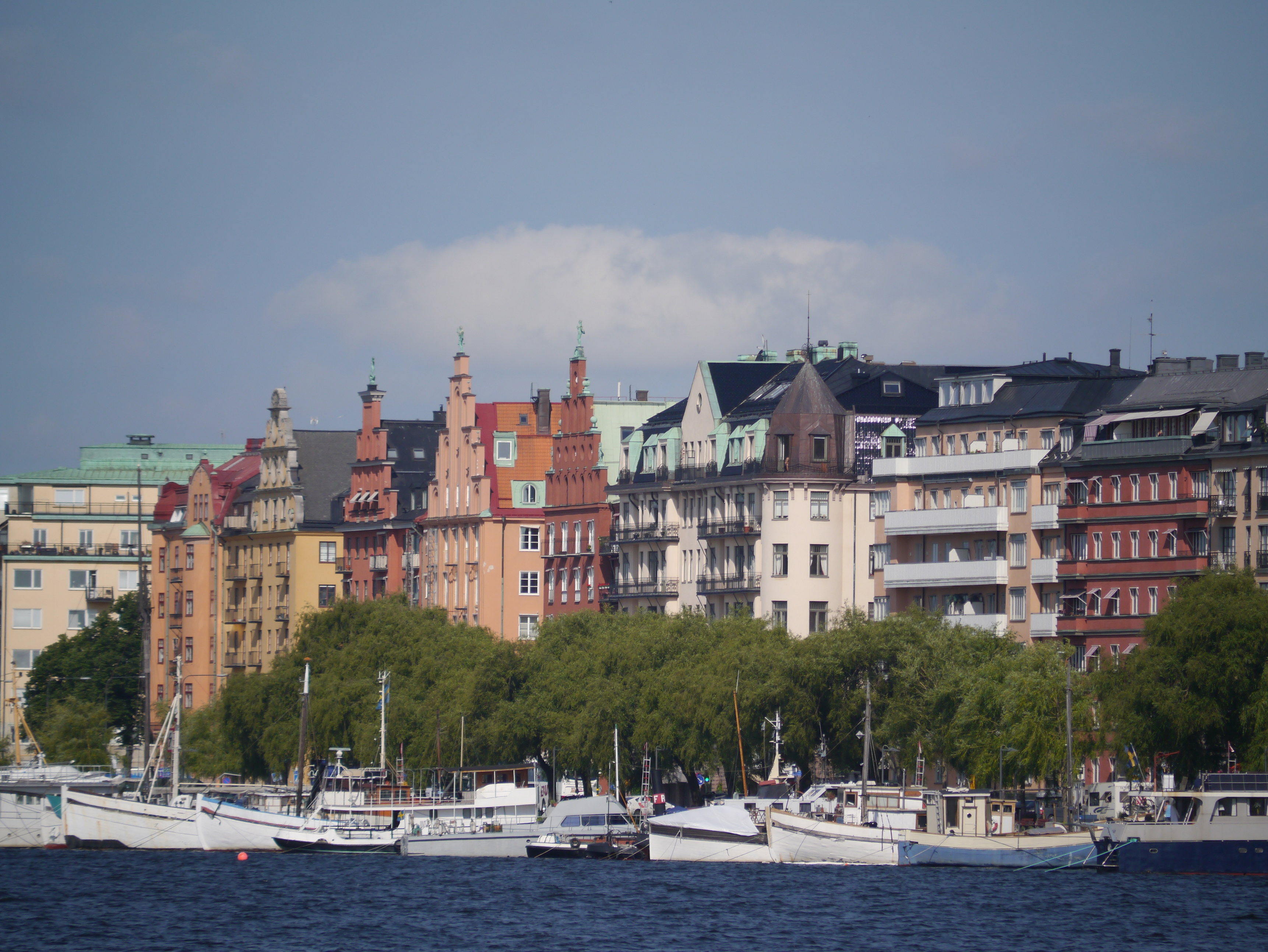 View to the Island of Kungsholmen, Stockholm, Stockholm Province, Southeatern Sweden